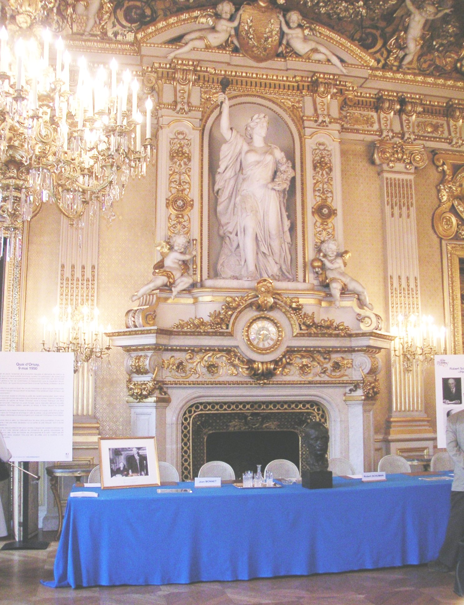 Salon de l'Horloge (The clock room).It was here that, on 9 May 1950, Robert Schuman gave the speech launching the plan for a European Coal and Steel Community (ECSC).[1]